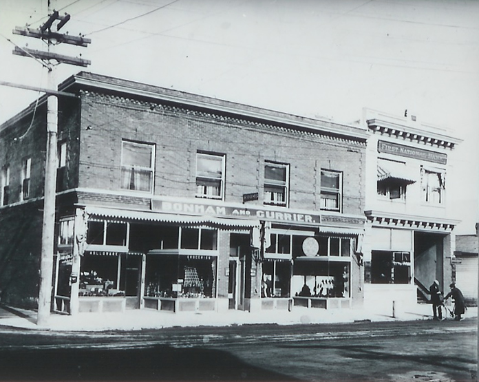 The Bonham and Currier Building, which still stands, in St. Johns, Oregon. Next to it is the First National Bank.